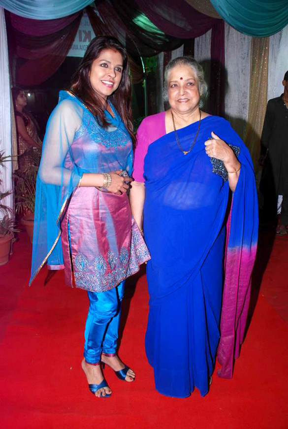 Bhavana Balsaver,Shobha Khote at The Aap Ki Awaz Award 2012